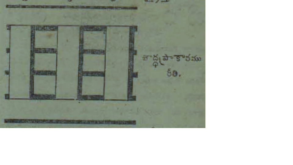 బౌద్ధ ప్రాకారము